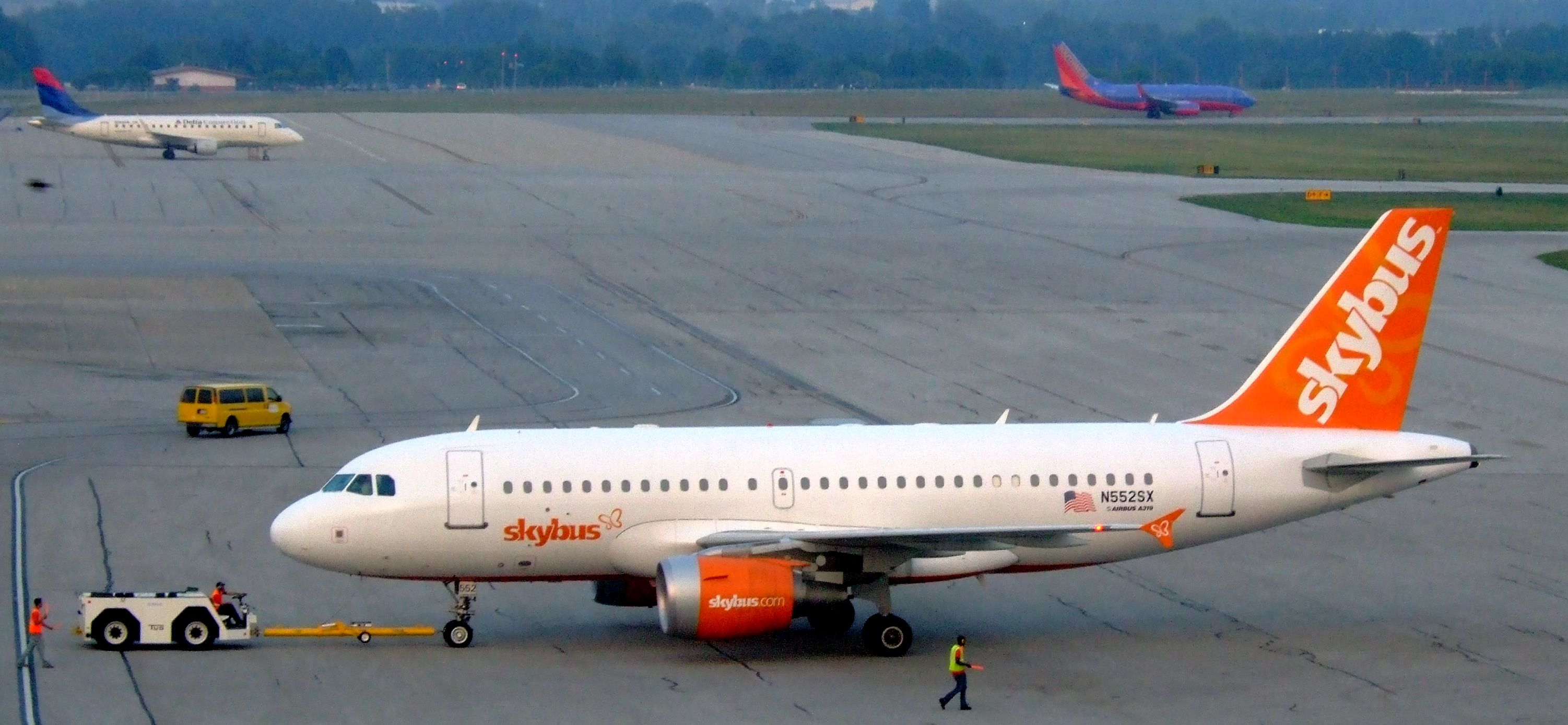 Airplanes at the Port Columbus International Airport. The plane in the foreground moved to Canada after the demise of Skybus and is now registered as C-GTDT operating as a charter for Skyservice.